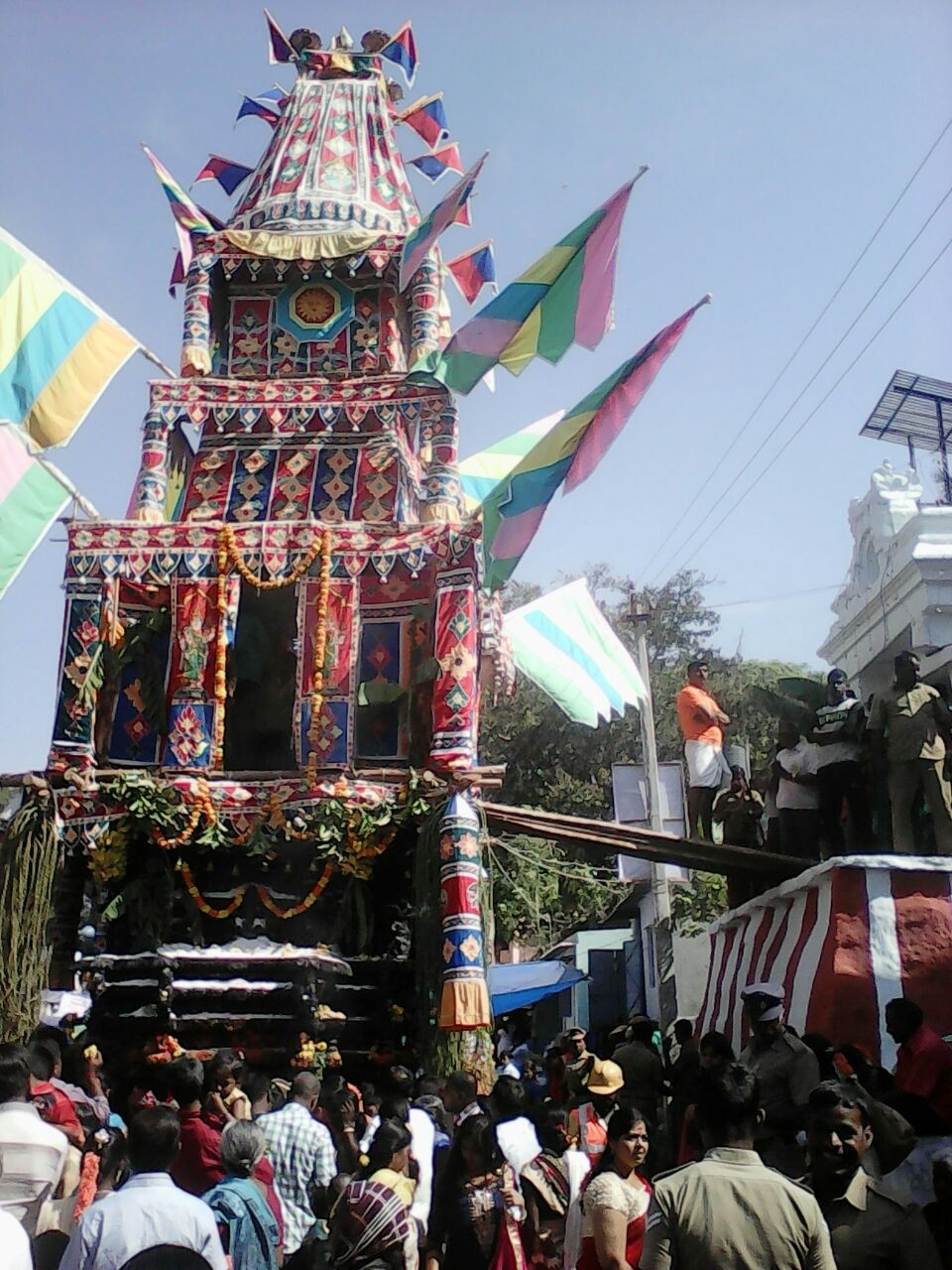 கிருட்டிணகிரி மாவட்டம் ஒசூர் சந்திரசூடேசுவரர் கோயில் தேருக்கும் தேர்முட்டி மண்டபத்துக்கும் அமைக்கப்பட்டுள்ள தற்காலிக மரப்பலகை பாலம்